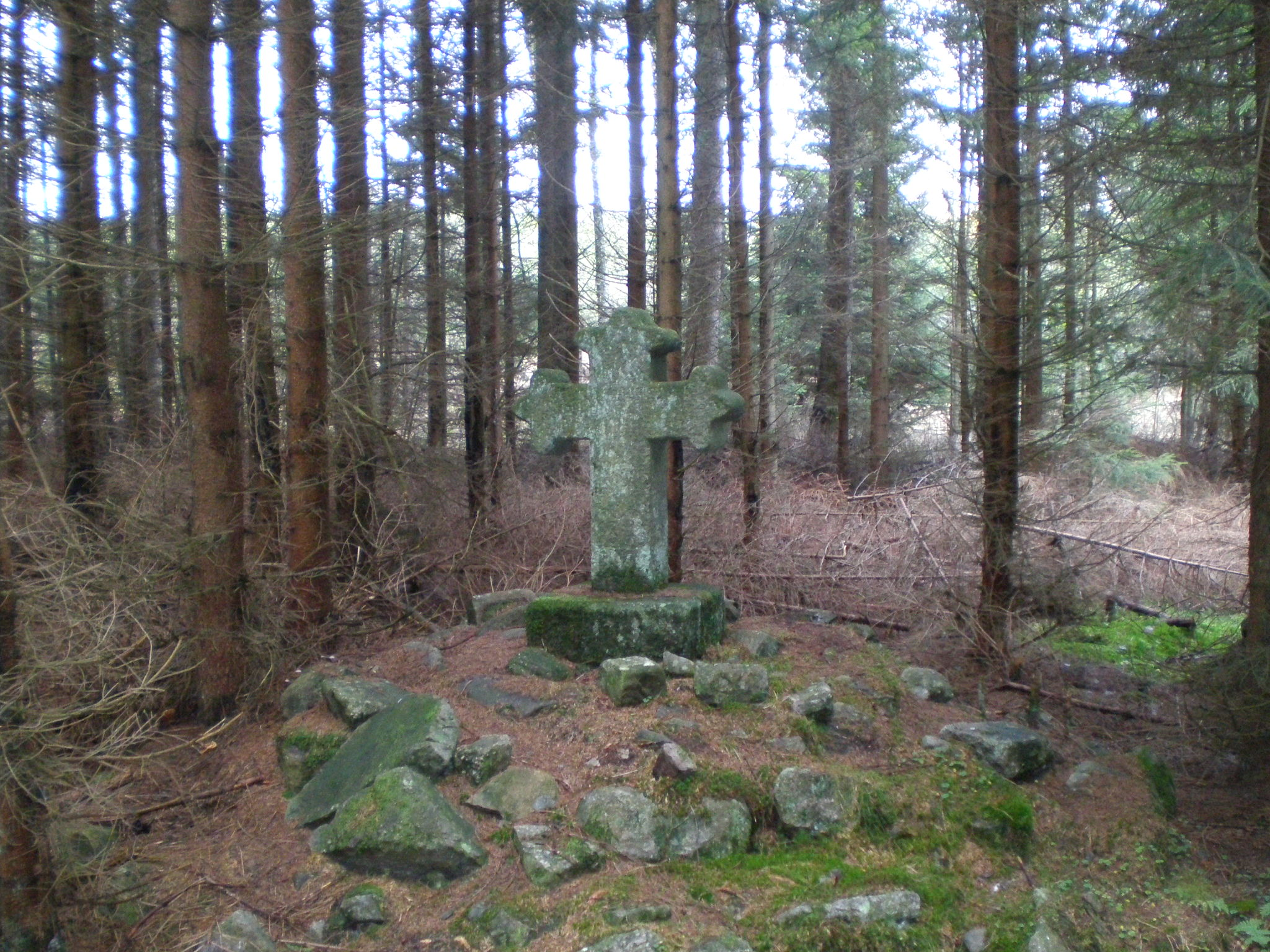 Cross in memory of Jan Línek, a forest keeper from village of Vranovice, shot dead by poachers in 1804, aged 26. The cross is located in a remote spot roughly amidst Skelná huť, Láz Reservoir and Bílá skála.